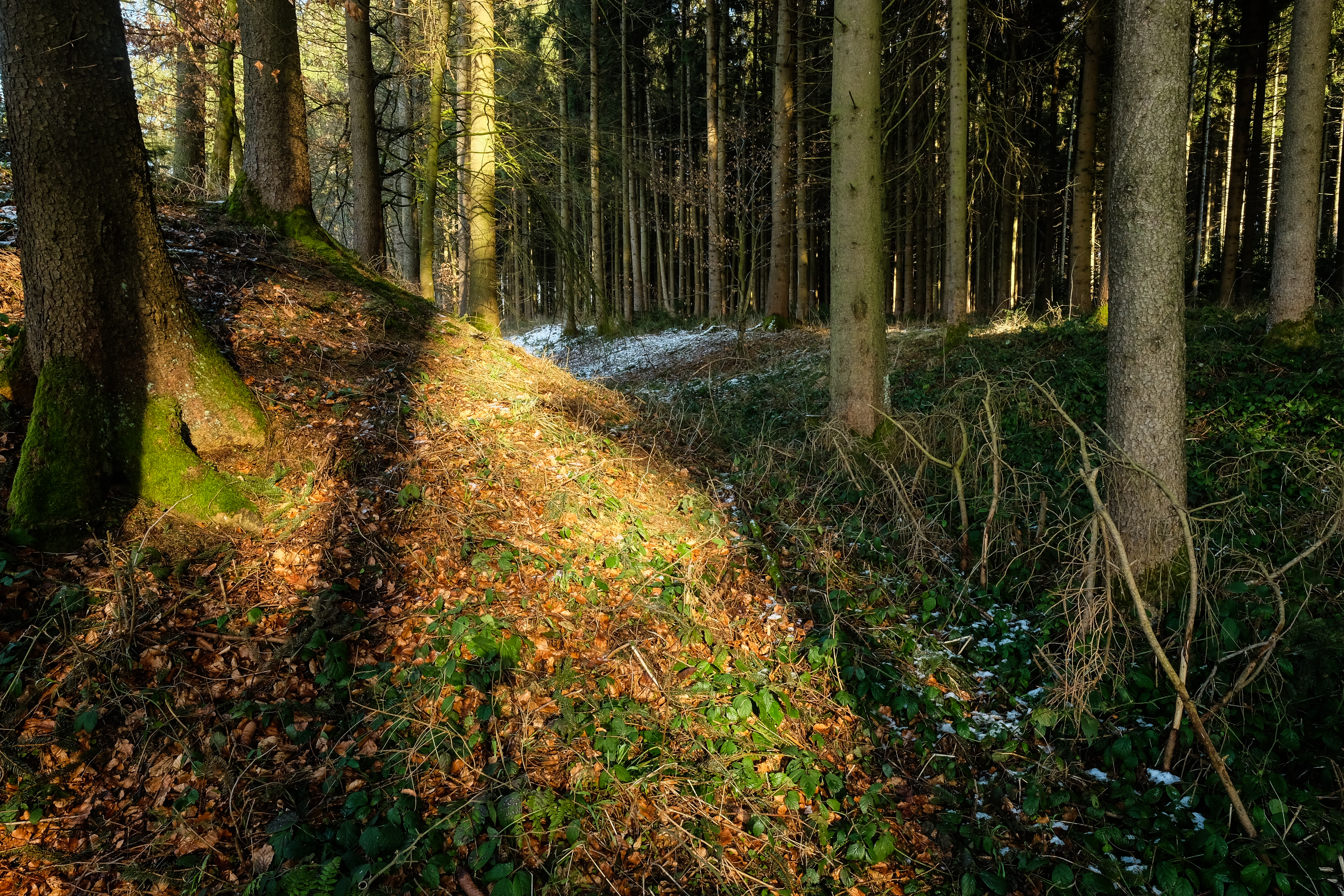 Celtic Viereckschanze (from German "four-corner-rampart"), Bad Saulgau-Bondorf, district Sigmaringen, Baden-Württemberg, Germany